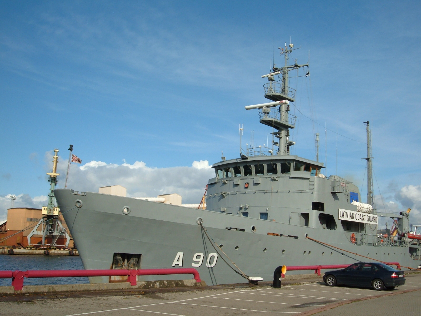 Latvian coast guard's ship "Varonis"